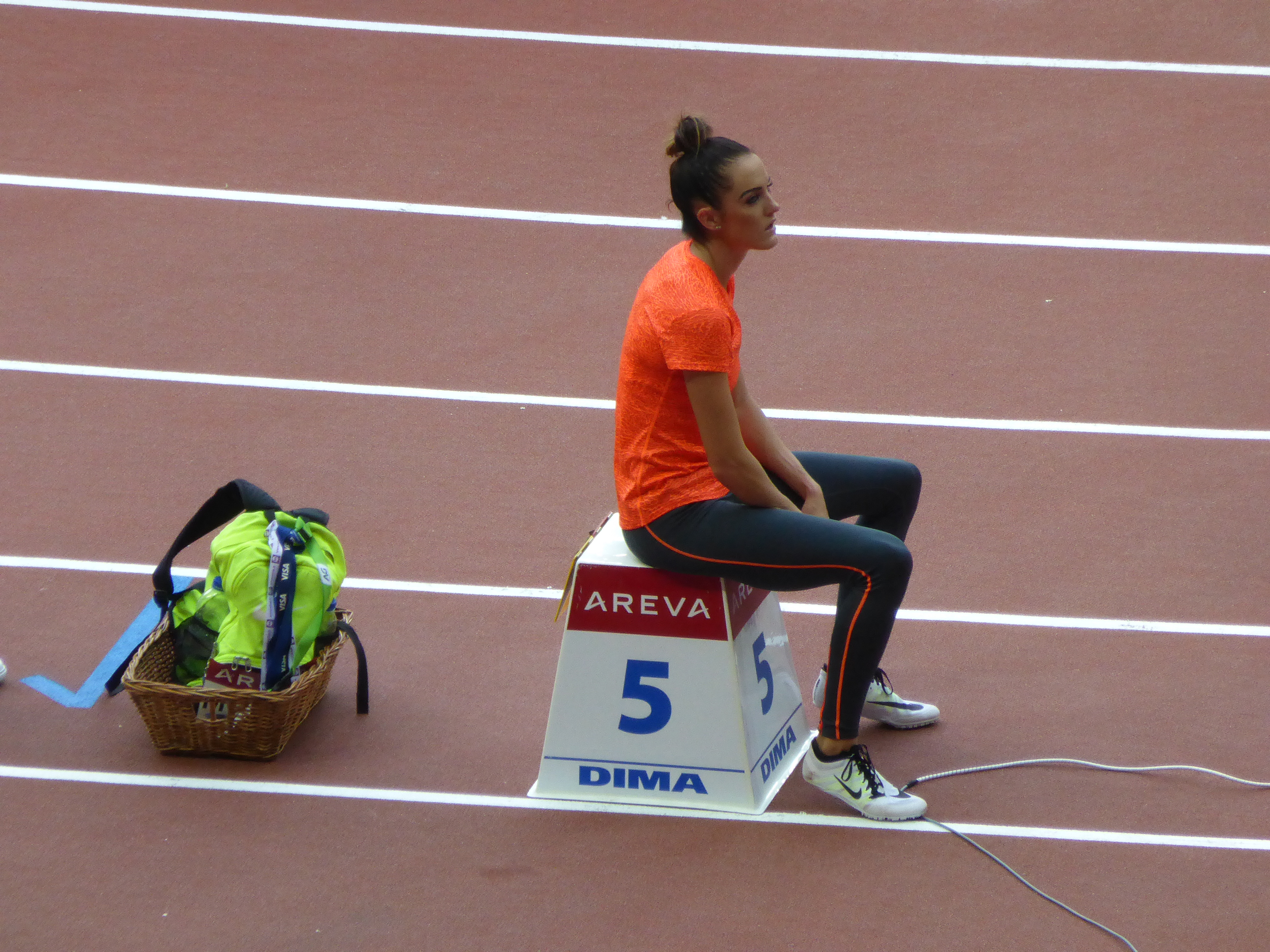 2015 Meeting Areva, Stade de France, Paris.